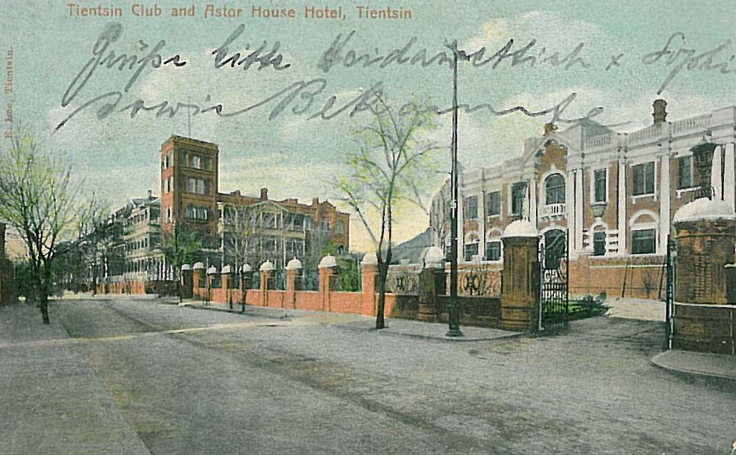 historical view of Tianjin